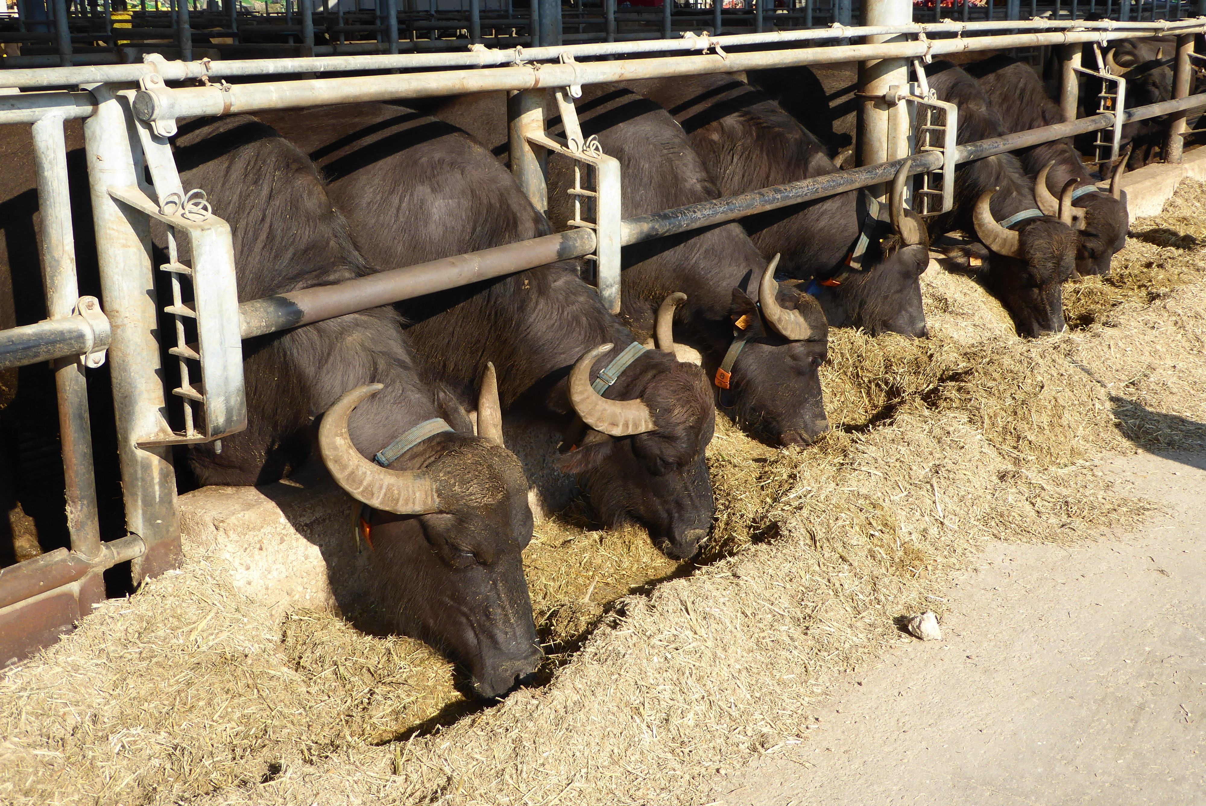 Buffaloes farmed in Capaccio Pestum (SA), Italy.